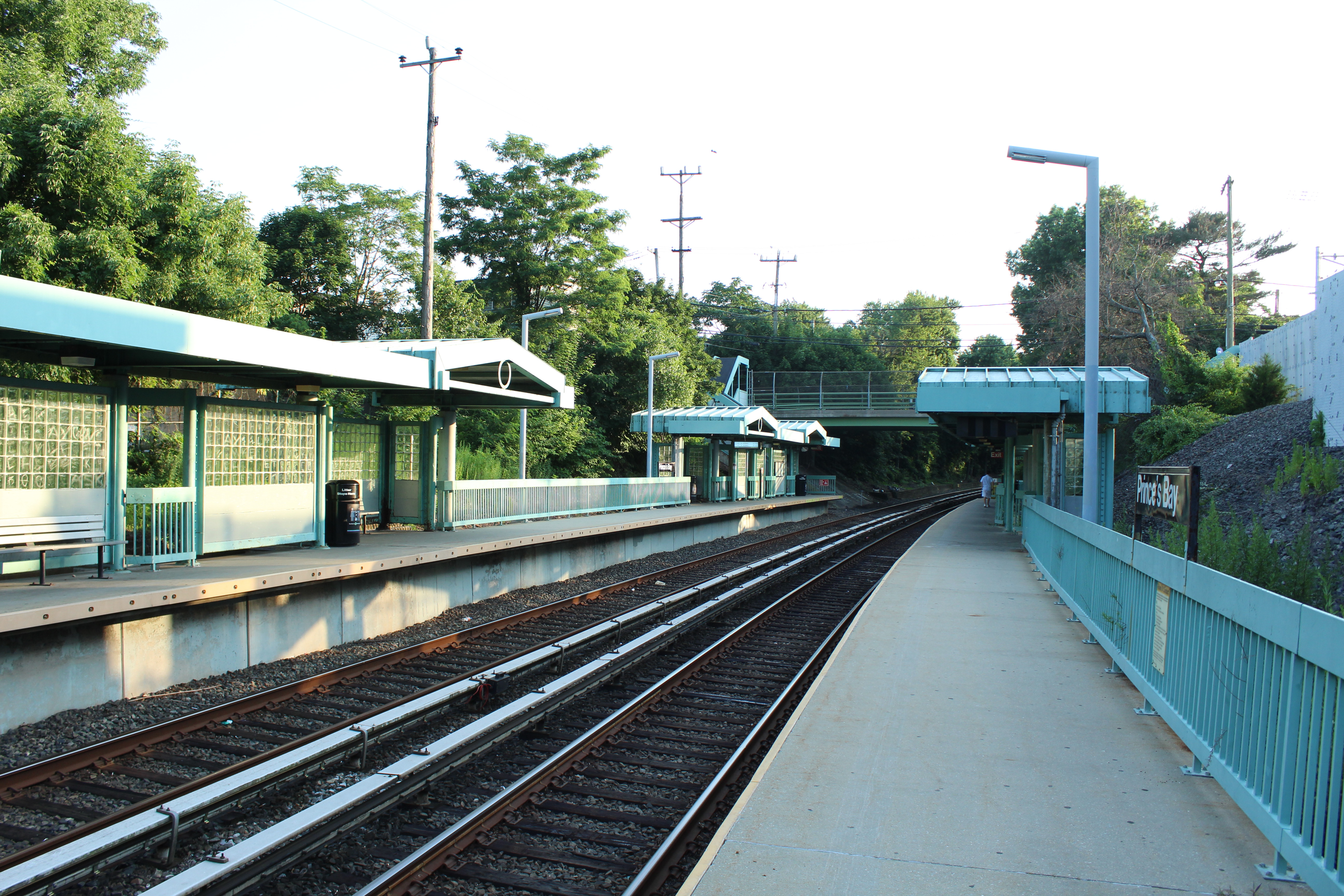 The view from the platforms at the Staten Island Railway Prince's Bay station facing southbound (Cardinal direction WSW), in Prince's Bay, Staten Island, New York.